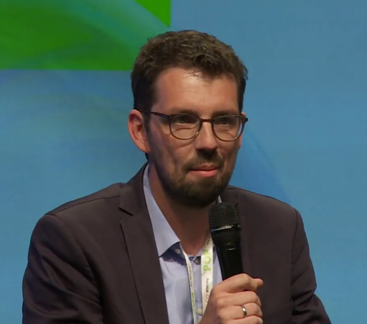 Dirk von Gehlen leading a discussion panel about digital identity